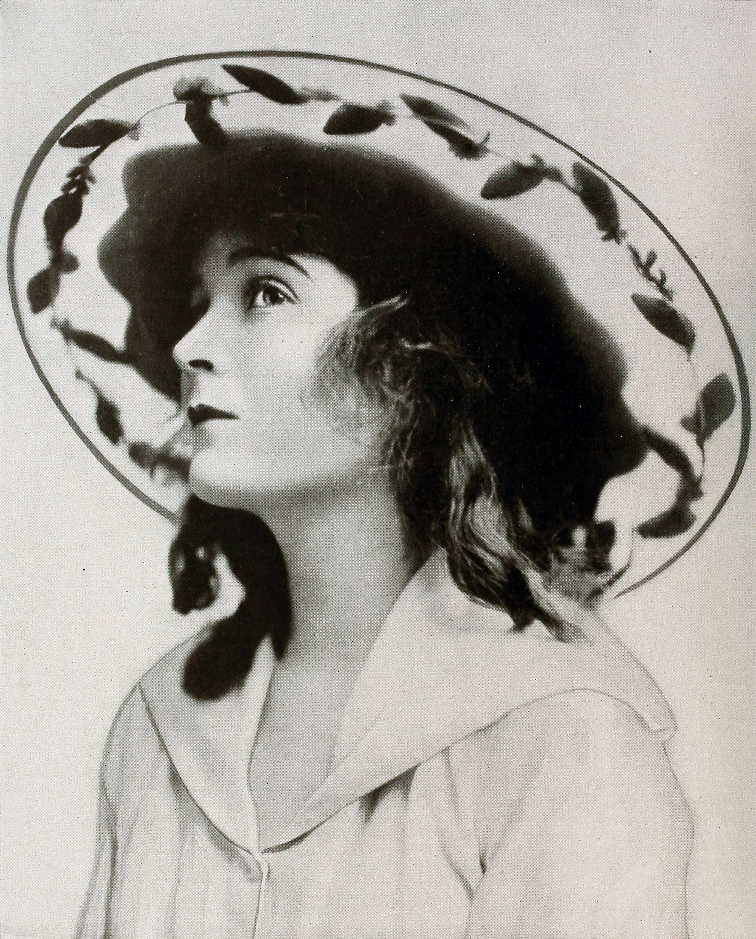 Mae Marsh. The Photo-Play Journal, July 1916